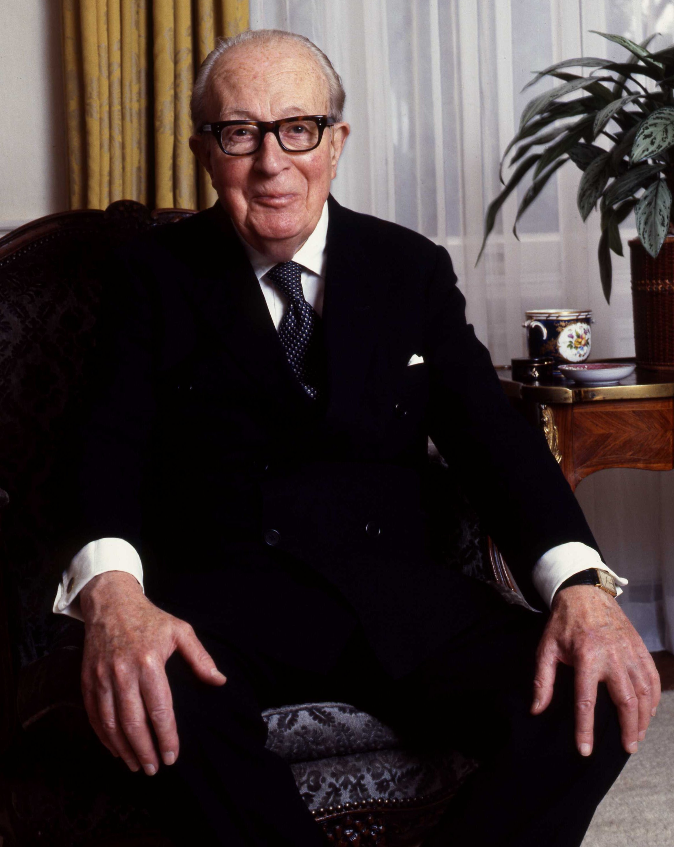 Victor Frederick William Cavendish-Bentinck, 9th Duke of Portland taken at his home in chelsea London.